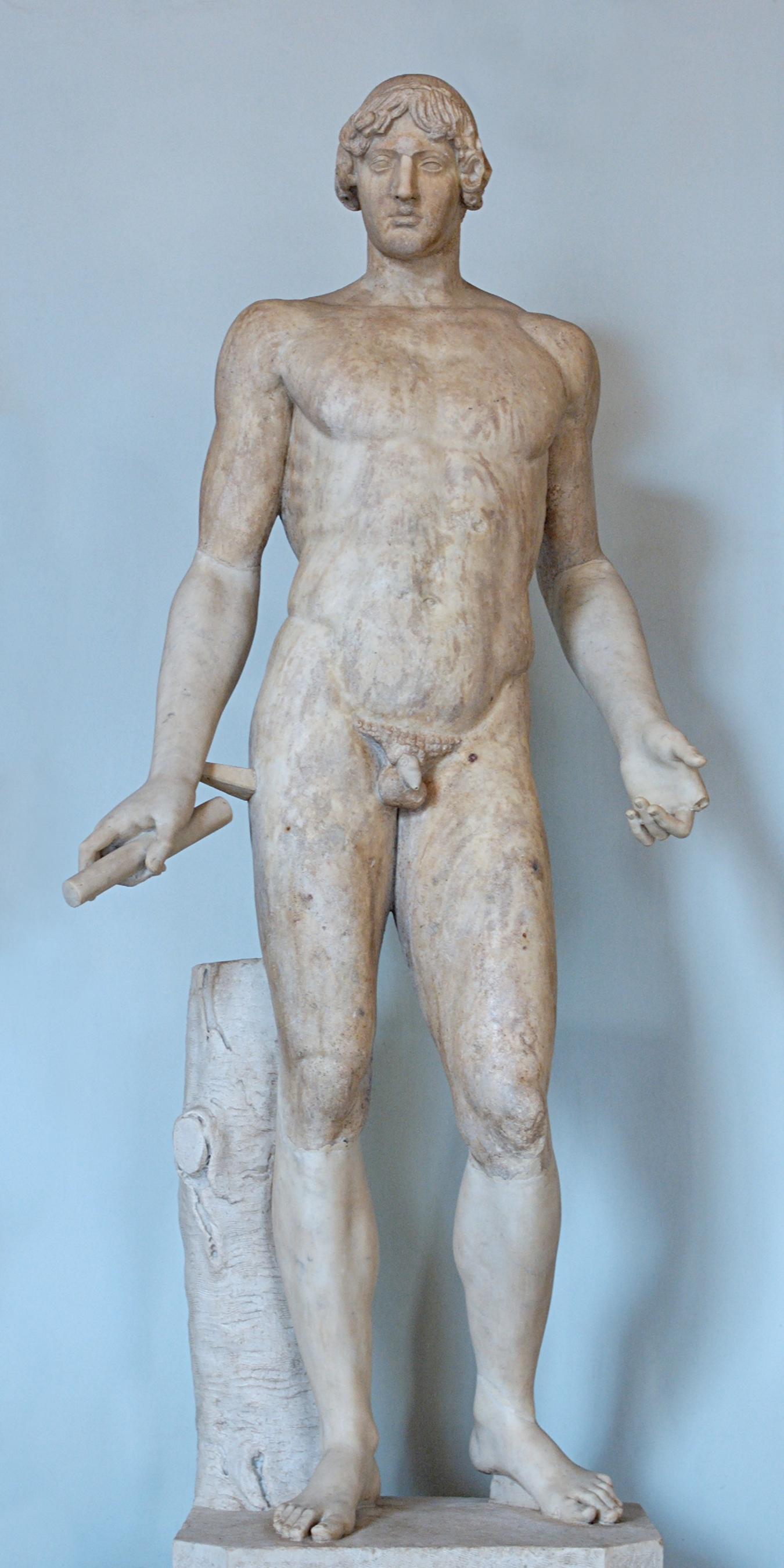 So-called “Omphalos Apollo”. Marble, Roman copy after a Greek original of 480–460 BCE.